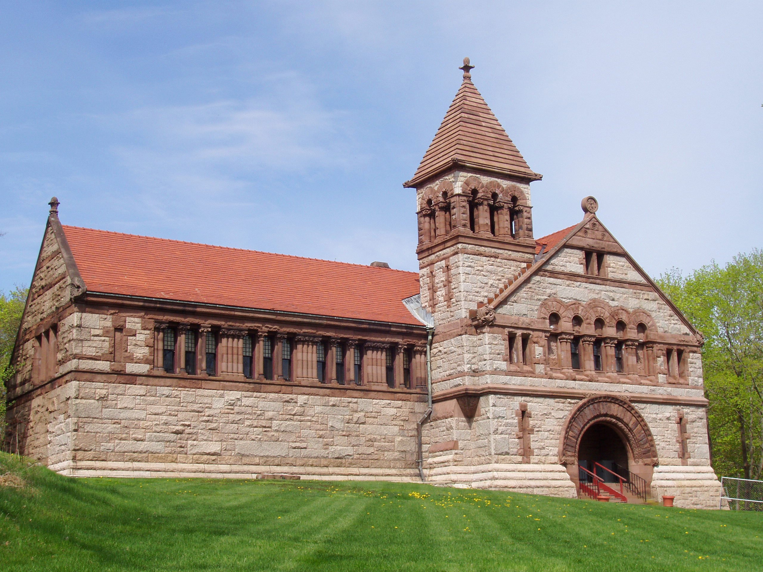 Ames Memorial Library, North Easton, Massachusetts, USA. H. H. Richardson, architect. Oblique view from front.